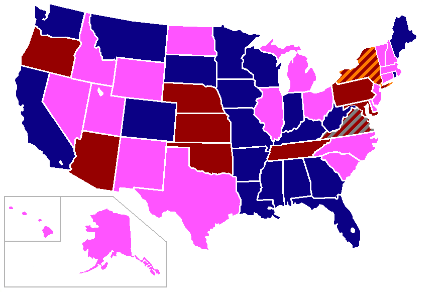 The electoral makeup of the Senate in the 94th United States Congress.